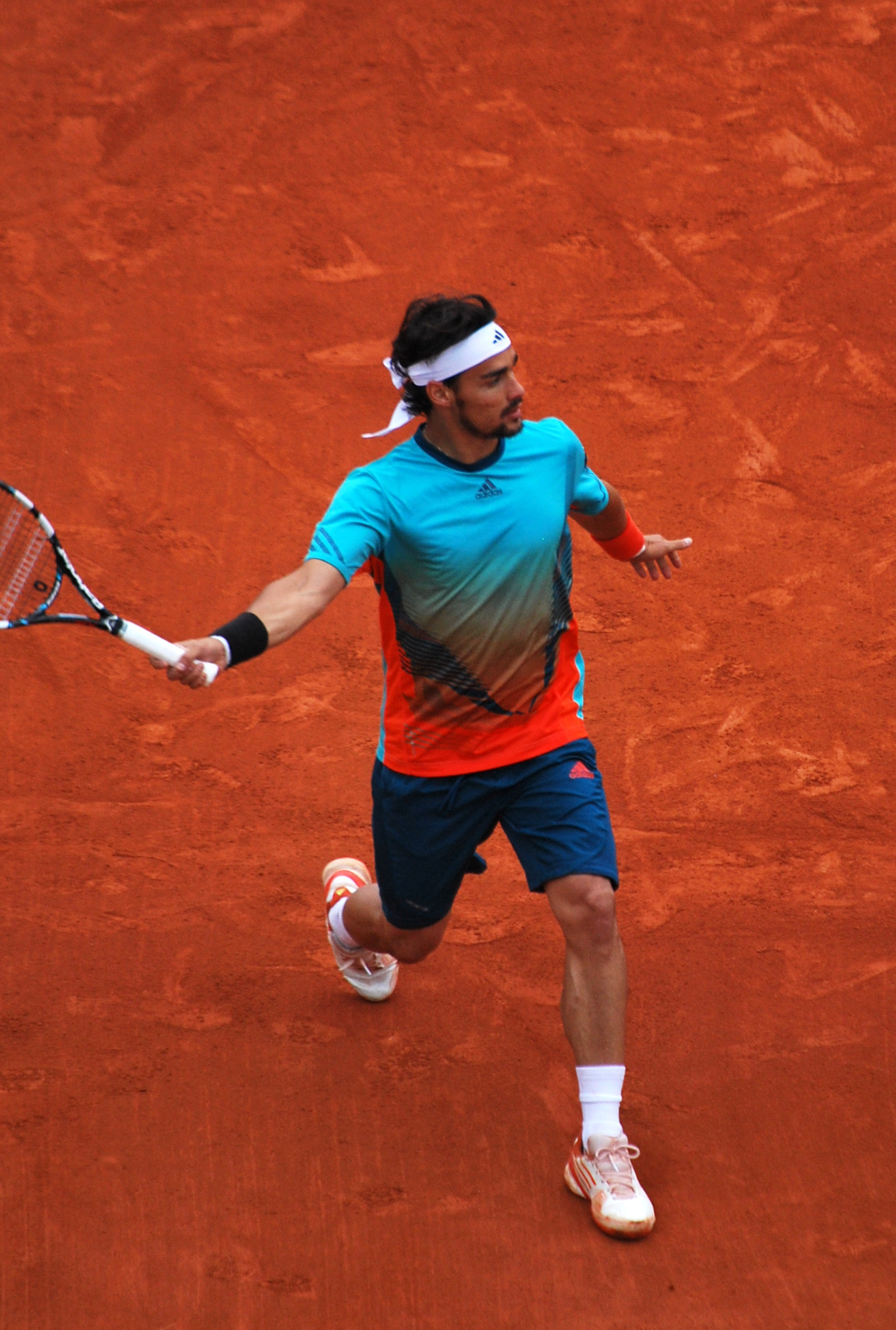 Fabio Fognini during his 3rd round match with Jo-Wilfried Tsonga. Tsonga won 7-5, 6-4, 6-4. Day 6 of Roland Garros 2012.